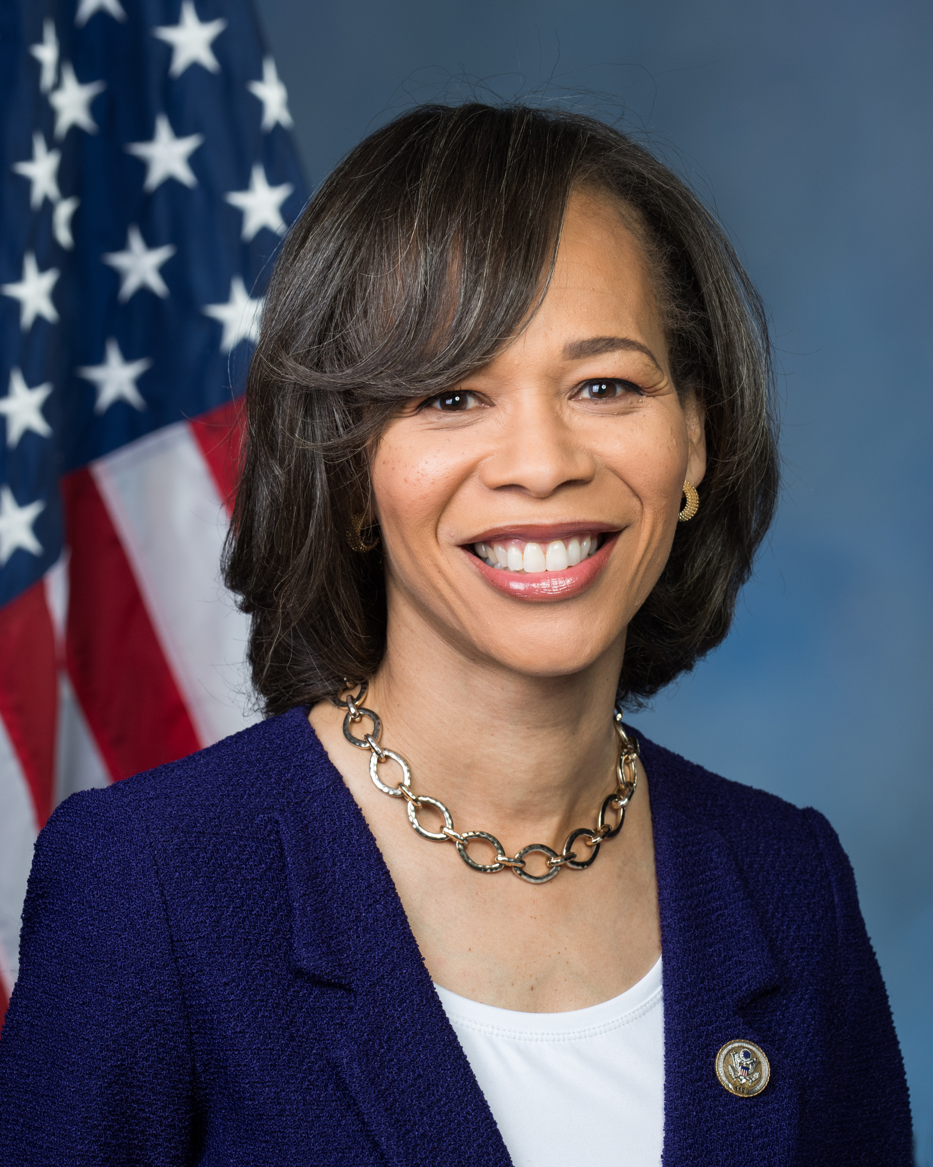 Lisa Blunt Rochester official photo